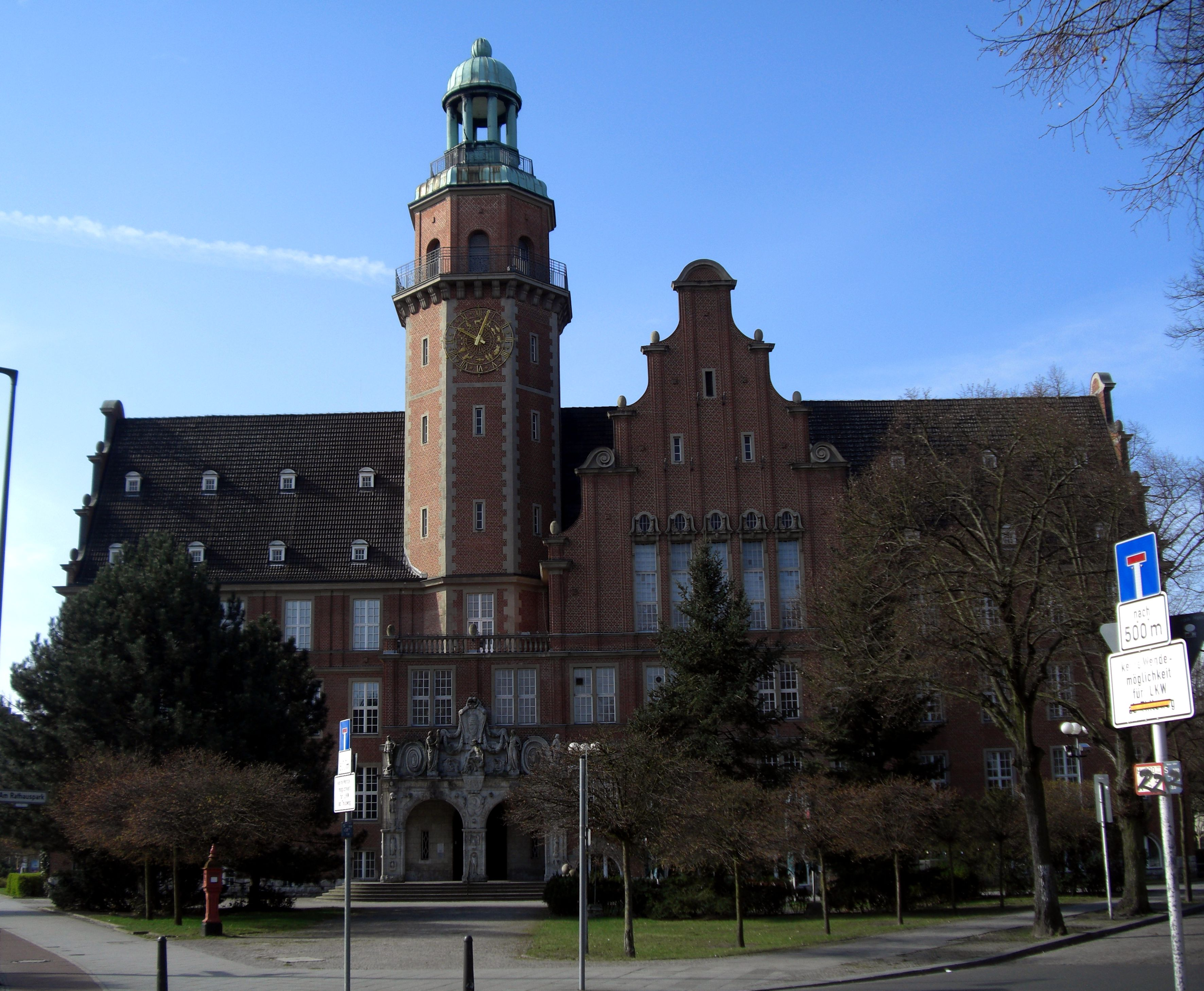 Rathaus Reinickendorf (Berlin)